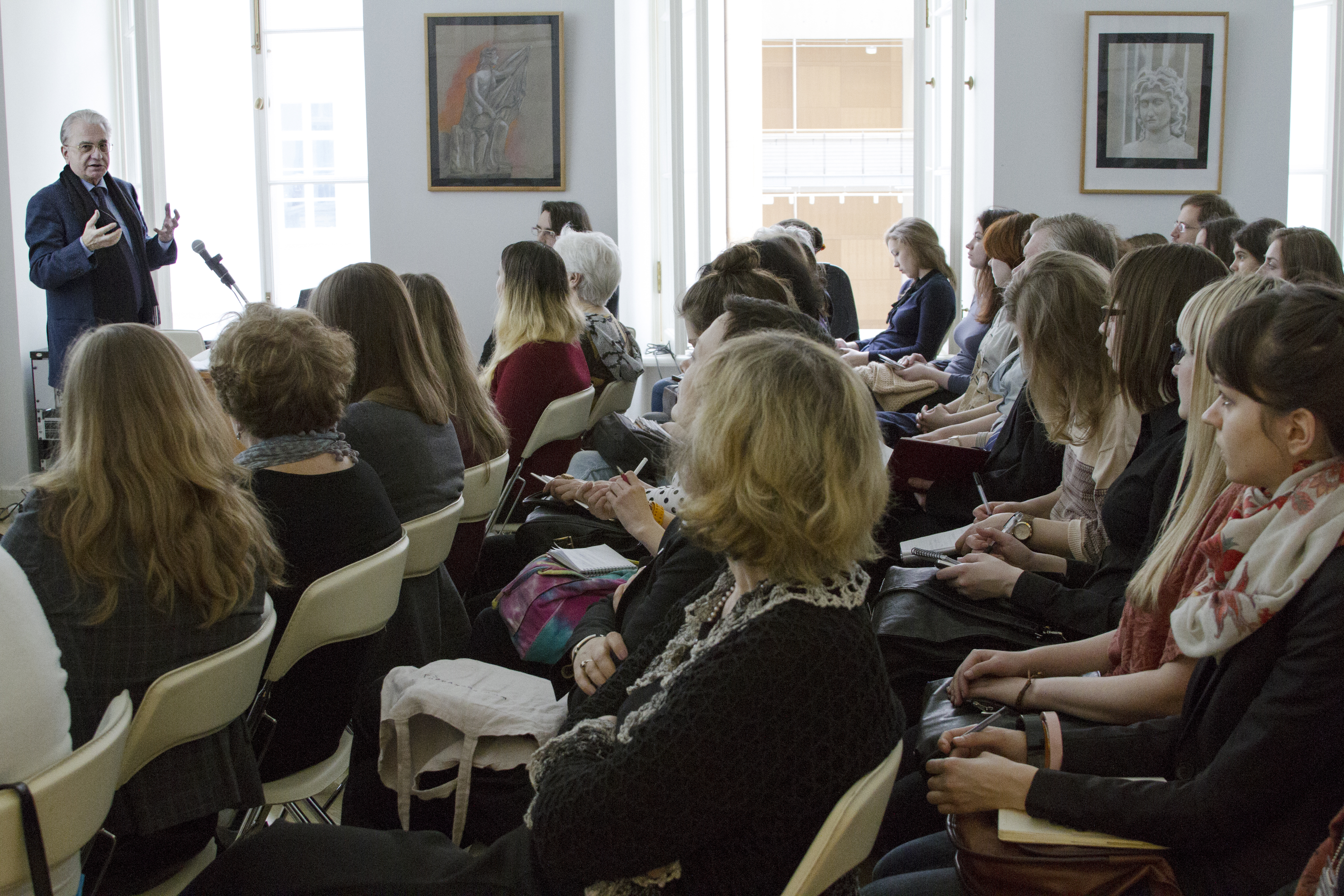 Лекция М.Б. Пиотровского в Молодежном центре